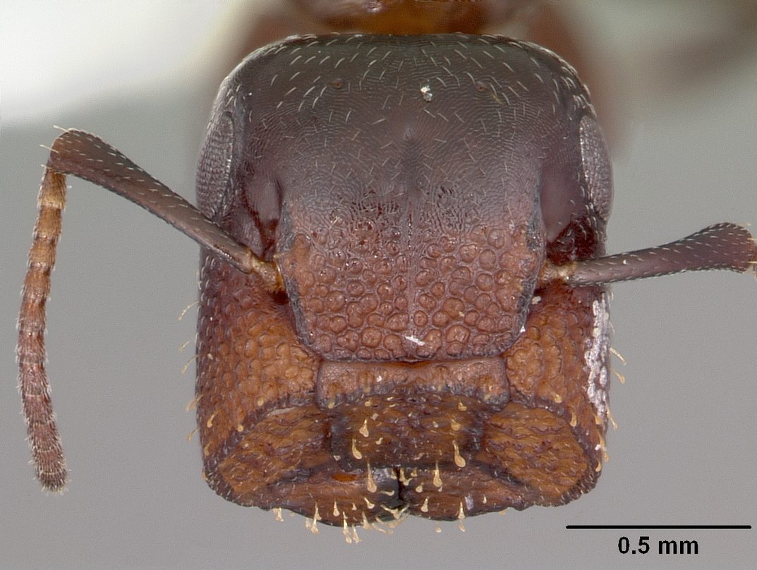 Head view of ant Camponotus cerberulus specimen casent0104765.